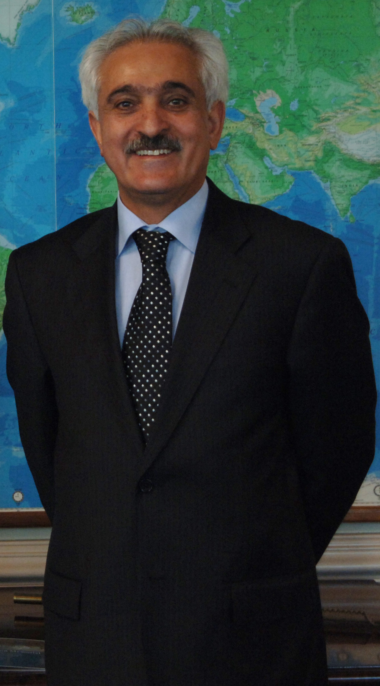 Rangeen Dadfar Spanta, Foreign Minister of Afghanistan.